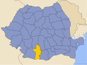 Location of Olt County in Romania.